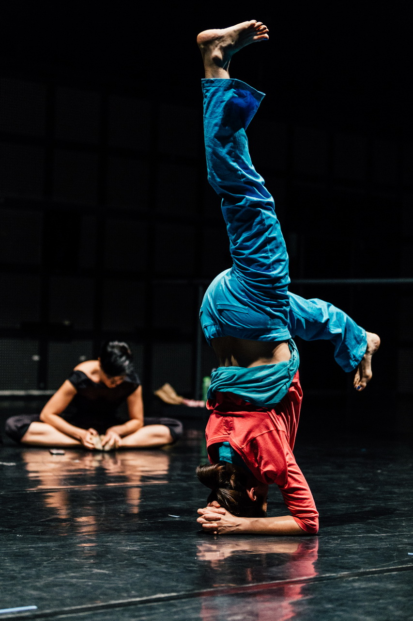 Dance, Balelerinas, New Dance Forum, SNT, Novi Sad, season 2014/15,director Milena Bogavac Srpski (latinica): Balerine, Forum za novi ples, Srpsko narodno pozorište, Novi Sad, sezona 2014-15, reditelj Milena Bogavac Српски (ћирилица): Балерине, Форум за нови плес, Српско народно позориште, Нови Сад, сезона 2014-15, редитељ Милена Богавац